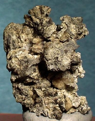 Lead Locality: Långban, Filipstad, Värmland, Sweden (Locality at ) Size: 2.6 x 2.0 x 1.9 cm. Native lead in any form is extremely rare. This OLD, CLASSIC and SCULPTURAL specimen is from the most famous locality for lead crystals - Langban, Sweden. Subhedral crystals to 7 mm abound on this fine thumbnail specimen from the John Ydren Collection.